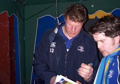 Mal O'Kelly at an RDS function